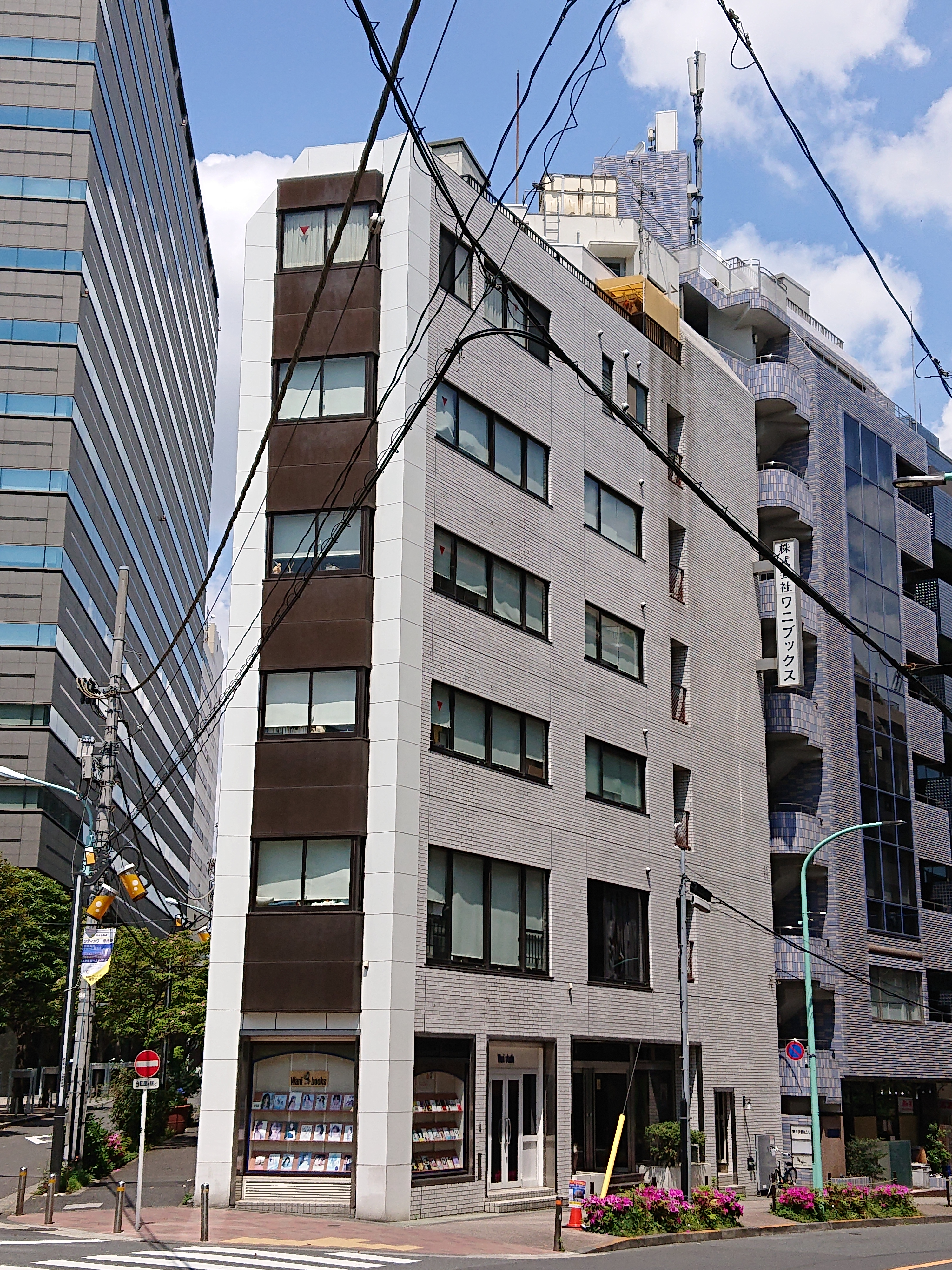 Ebisu Daikoku Building, at 4-4-9 Ebisu, Shibuya, Tokyo, Japan